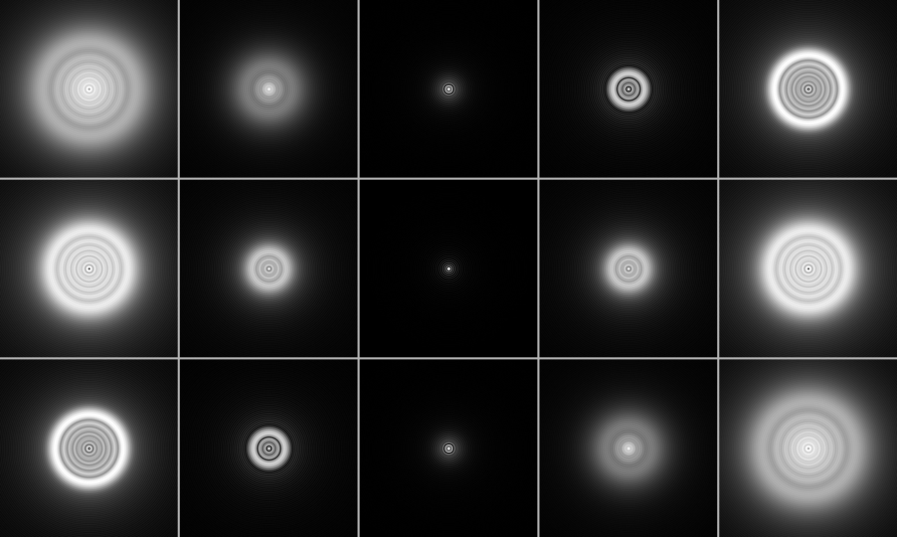 A simulation of spherical aberration in an optical system with a circular, unobstructed aperture admitting a monochromatic point source. The top row is over-corrected (half a wavelength), the middle row is perfectly corrected, and the bottom row is under-corrected (half a wavelength). Going left to right, one moves from being inside focus to outside focus. The middle column is perfectly focused. Also note the equivalence of inside-focus over-correction to outside-focus under-correction. See the corresponding longitudinal sections. See also Image:Spherical-aberration-slice.jpg